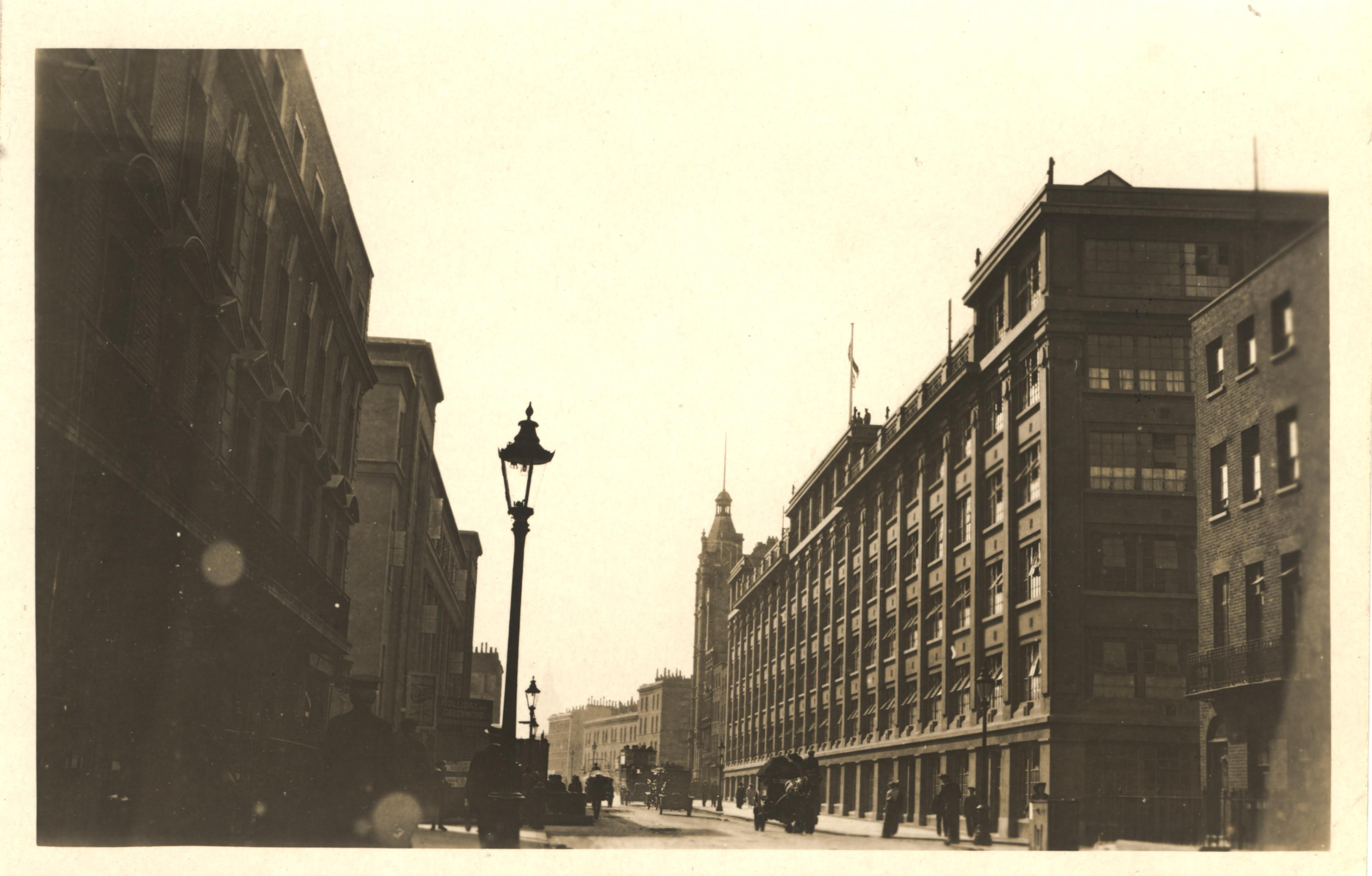 Black and white photograph of an exterior view of King George Military Hospital, London, England. England, 1915